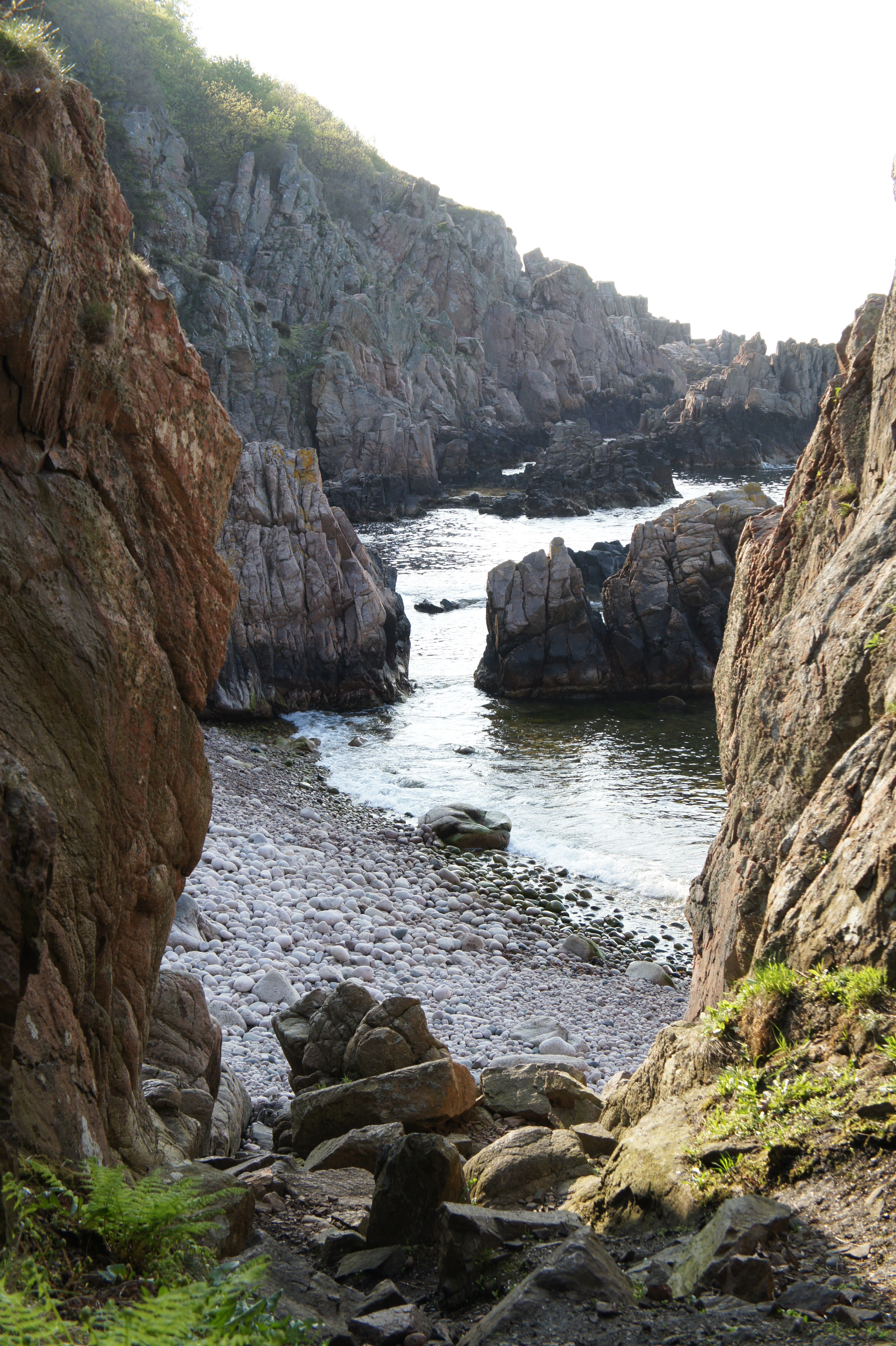 Josefinelust bay, Kullaberg, Sweden